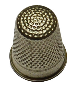 Thimble